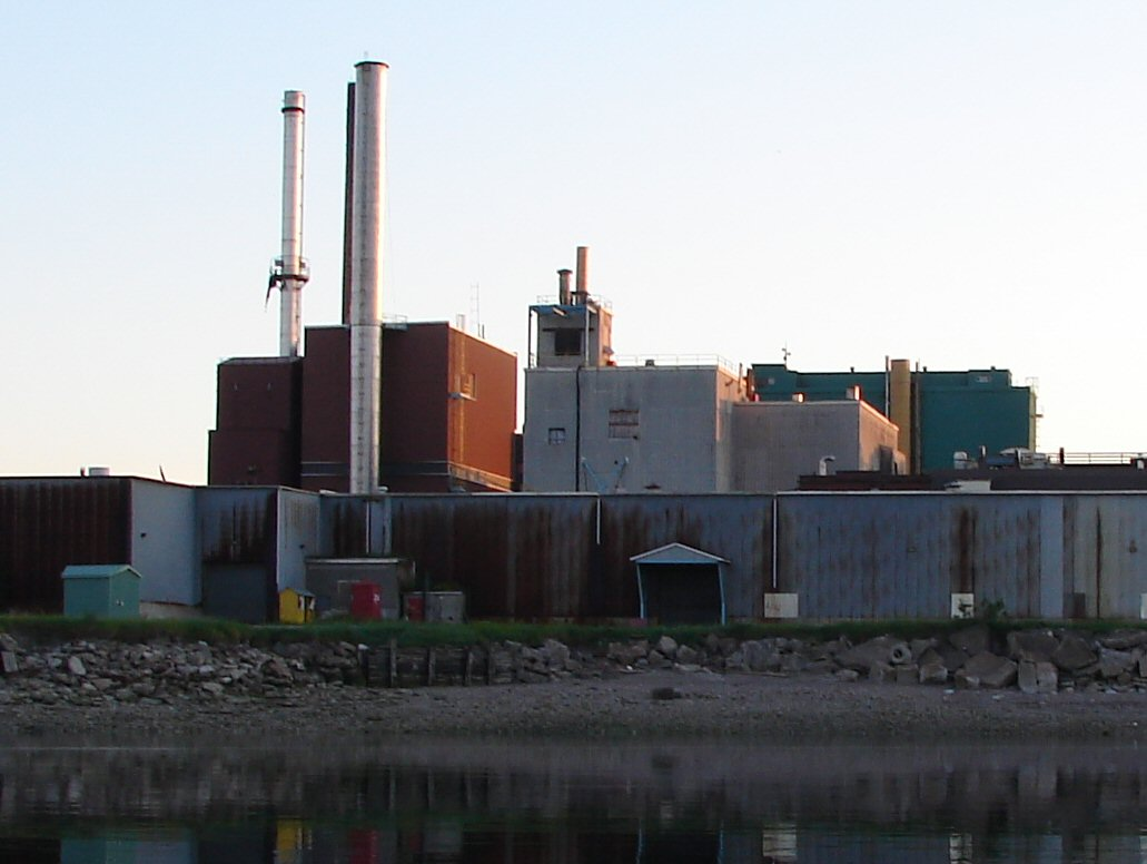 Picture of the usine of Abitibi-Consolidated company at Port-Alfred